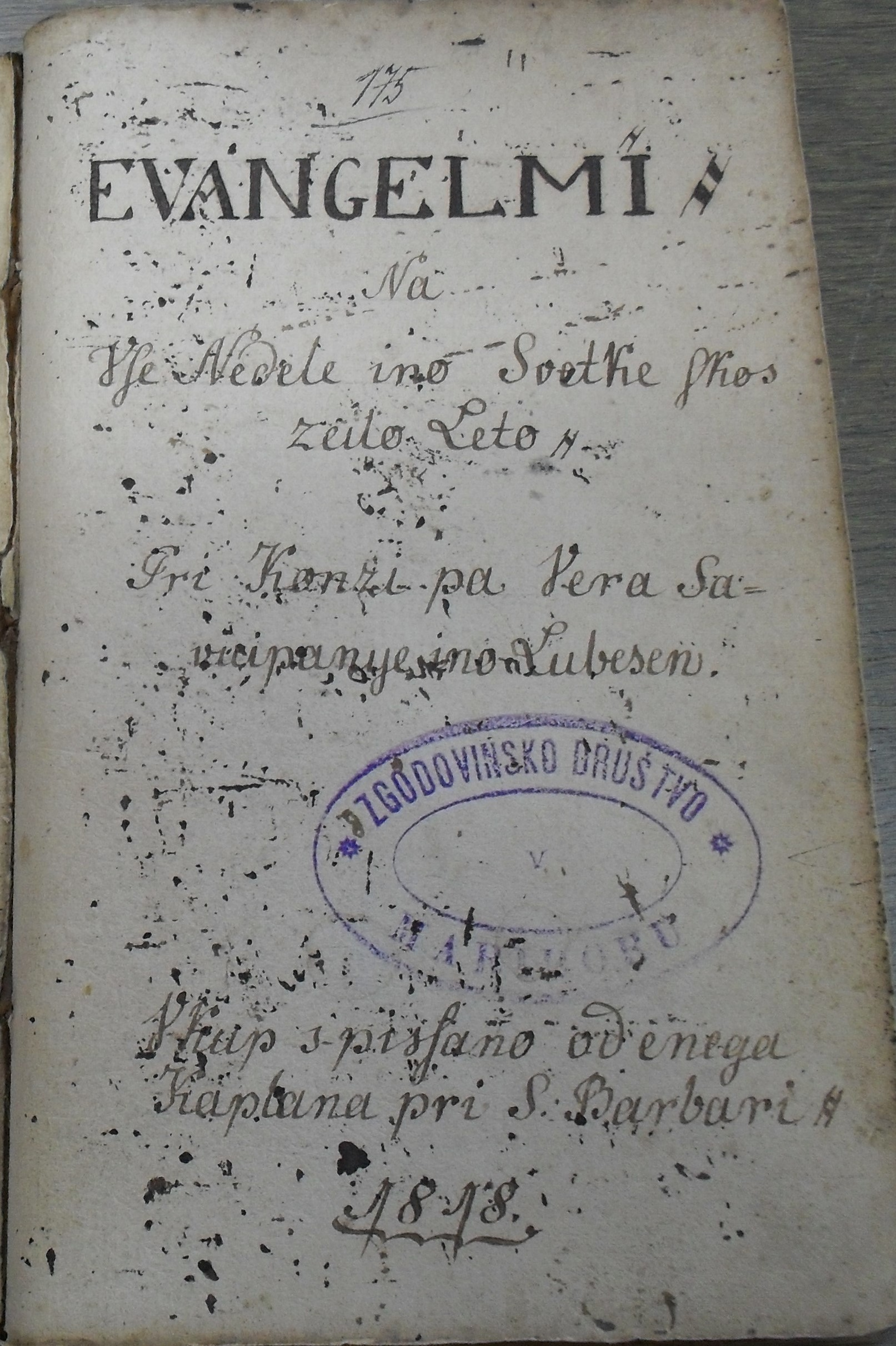 Evangelmi na Vʃe Nedele ino Svetke ʃkos zeilo leto (1818), Gospels in Haloze dialect of Slovene language from Jožef Pichler (1789-1859). Only manuscript.